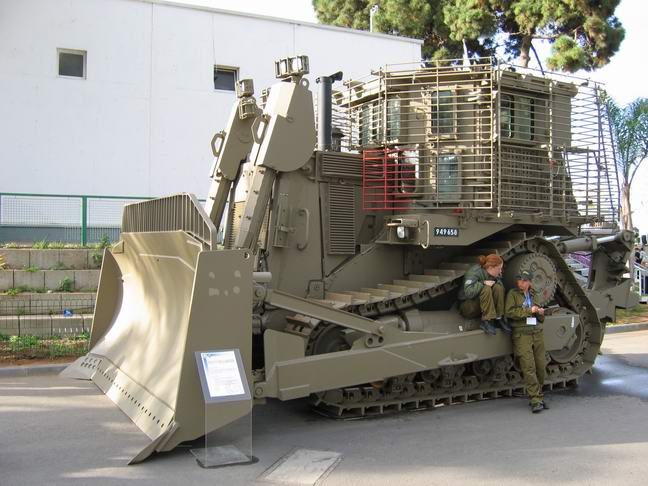 An armored Caterpillar D9R bulldozer of the Israeli Defense Forces, with add-on slat armor against ATGM & RPG rockets. Photographed by FiReBall from Fresh's Military & Security Forum, in LIC 2005 exhibition in Tel Aviv, Israel. MathKnight